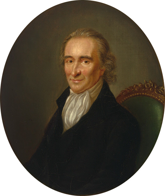 portrait of Thomas Paine by Laurent Dabos for the purpose of engraving.